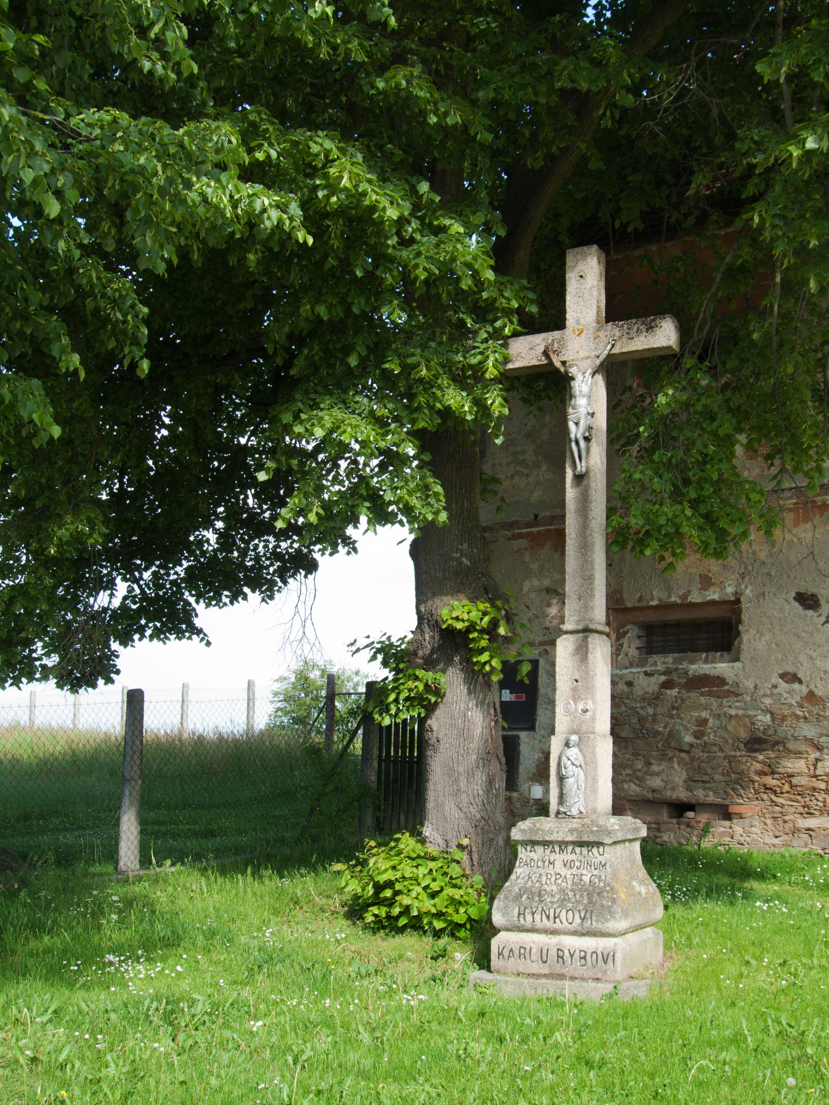 Cross in the village of Dvorce, Tábor District, Czech Republic, dated 1915. Česky: Kříž ve vsi Dvorce, části obce Tučapy v okrese Tábor s datací 1915.